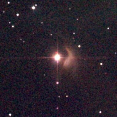 The famous young variable stellar object T Tauri, prototype to the class of pre-main-sequence objects which bears its name. T Tauri is actually a 0´´.6-separation binary star, unresolved in this image. (The objects very near the star just east of north and just west of south are filter glint artifacts, not infrared companions of T Tau.) The nebula to the west (NGC 1555) is reflected light from T Tauri. Field size 6.3´ × 8.2´.